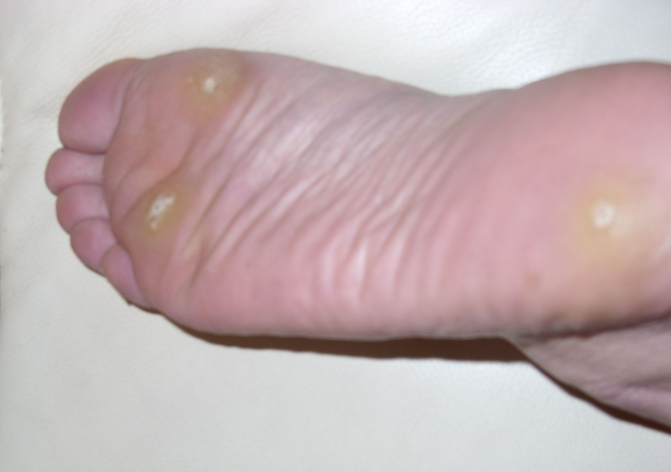 Large plantar warts, extremely painful. After the surgical removal of a plantar wart several years ago the wart reoccured and three new warts developed, among these a very large one at the left sole. Further treatments haved proved unsuccessful so far, the 44-year-old female patient is almost unable to walk.